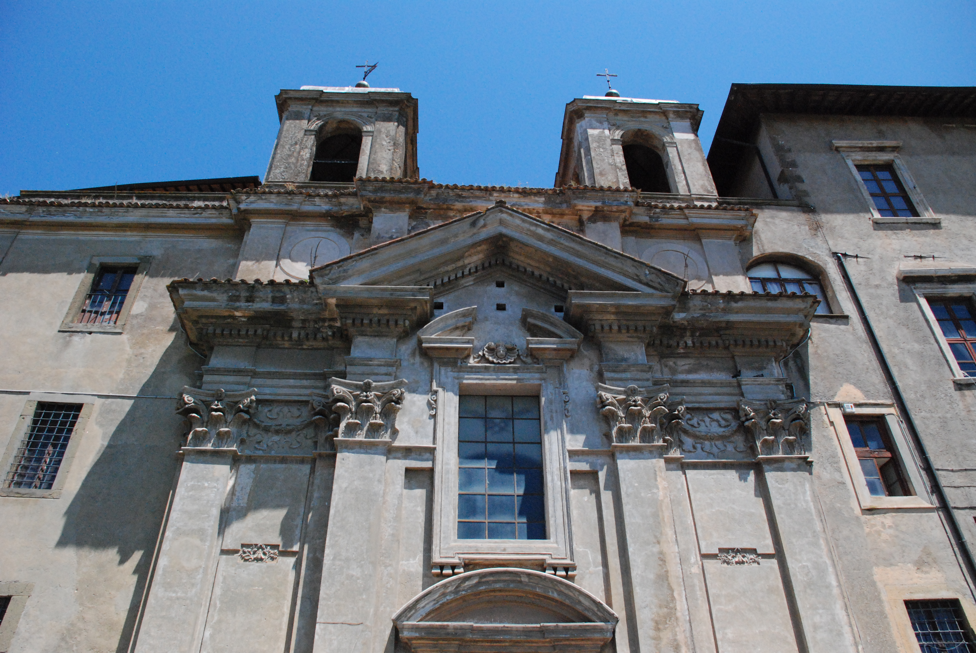 Sanctuary of Fortuna Primigenia and The National Archeological Museum Of Palestrina